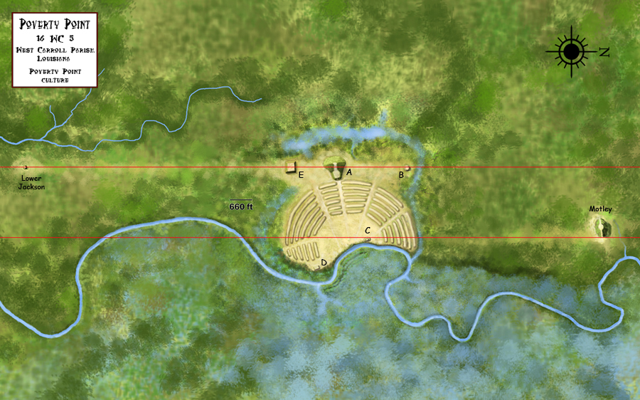 An overview of the Poverty Point Site, built between 1650 to 700 BCE, during the Archaic Period in the Americas.